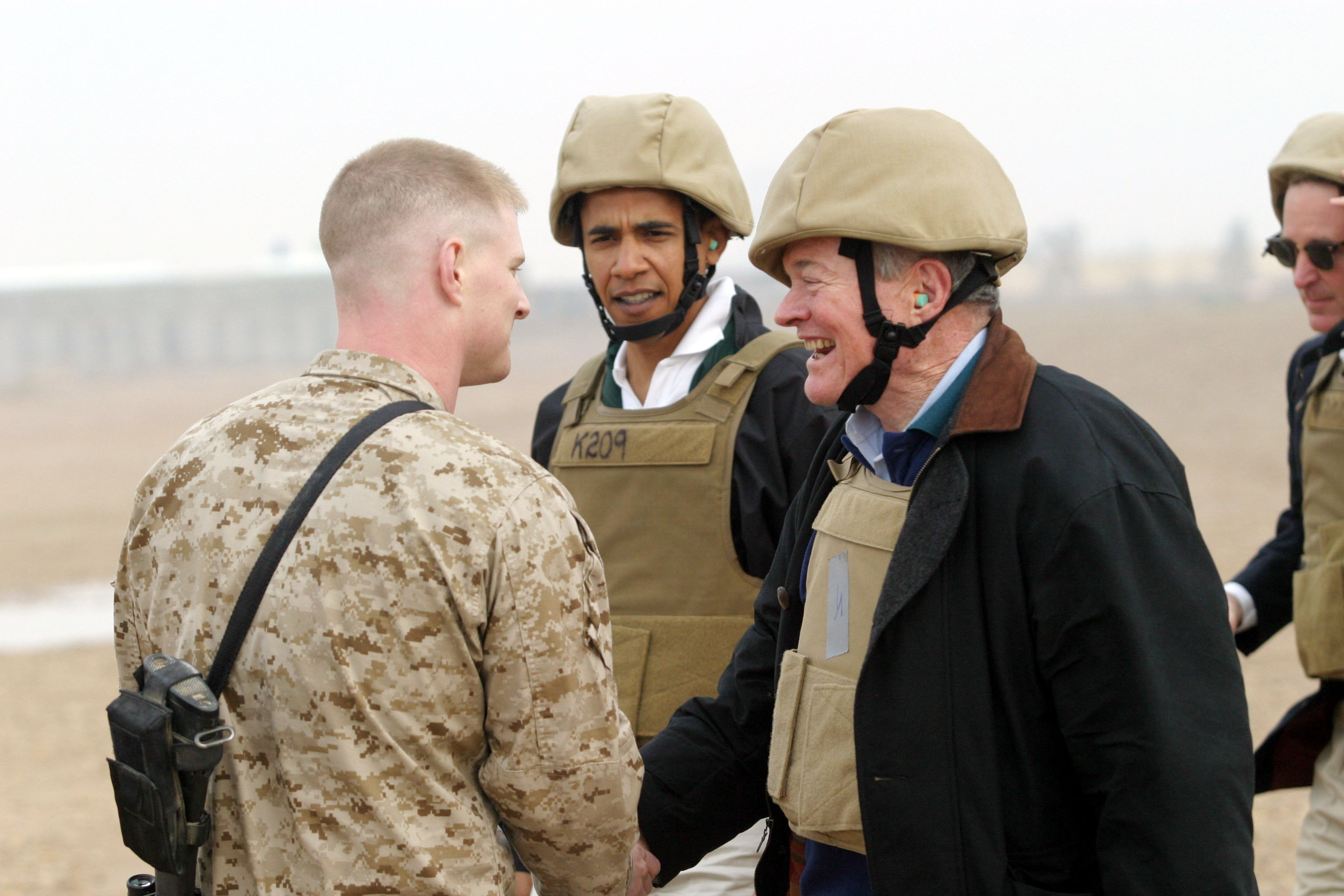 Fallujah, Iraq (Jan. 8, 2006) - Missouri Senator Christopher Bond, shakes the hand of his son, II Marine Expeditionary Force S2 Targeting and Collections Officer, 1st Lt. Samuel R. Bond, who came up to the landing zone to welcome his father to Camp Fallujah. II Marine Expeditionary Force is deployed in support of the global war on terrorism to conduct counter-insurgency operations to isolate and neutralize anti-Iraqi forces; support the continued development of Iraqi Security Force; support Iraqi reconstruction and democratic elections; and to facilitate the creation of a secure environment that enables Iraqi self-reliance and self-governance. U.S. Marine Corps photo by Lance Cpl. Michael J. O'Brien (RELEASED)